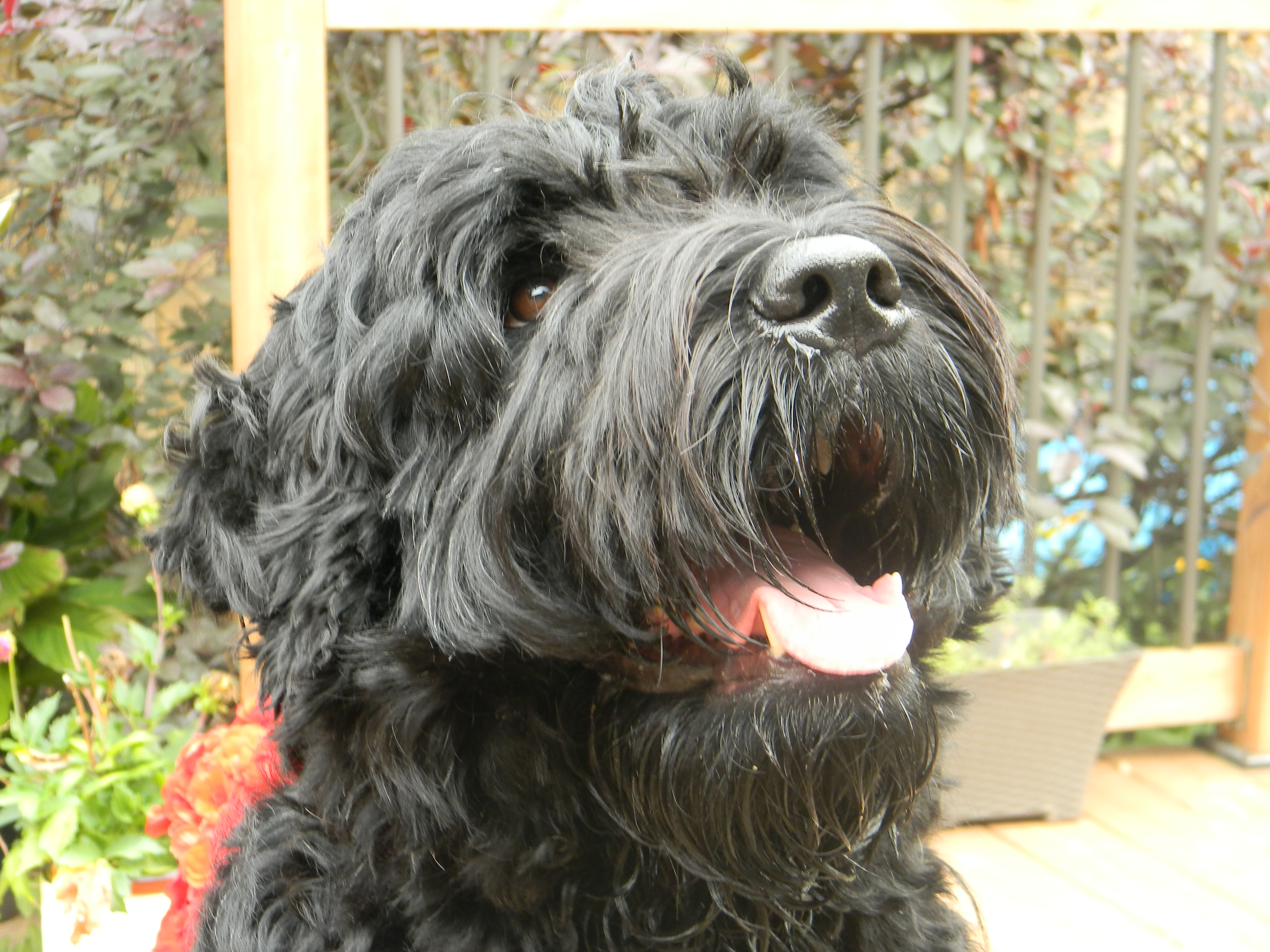 Black Russian Terrier, picture taken in Canada